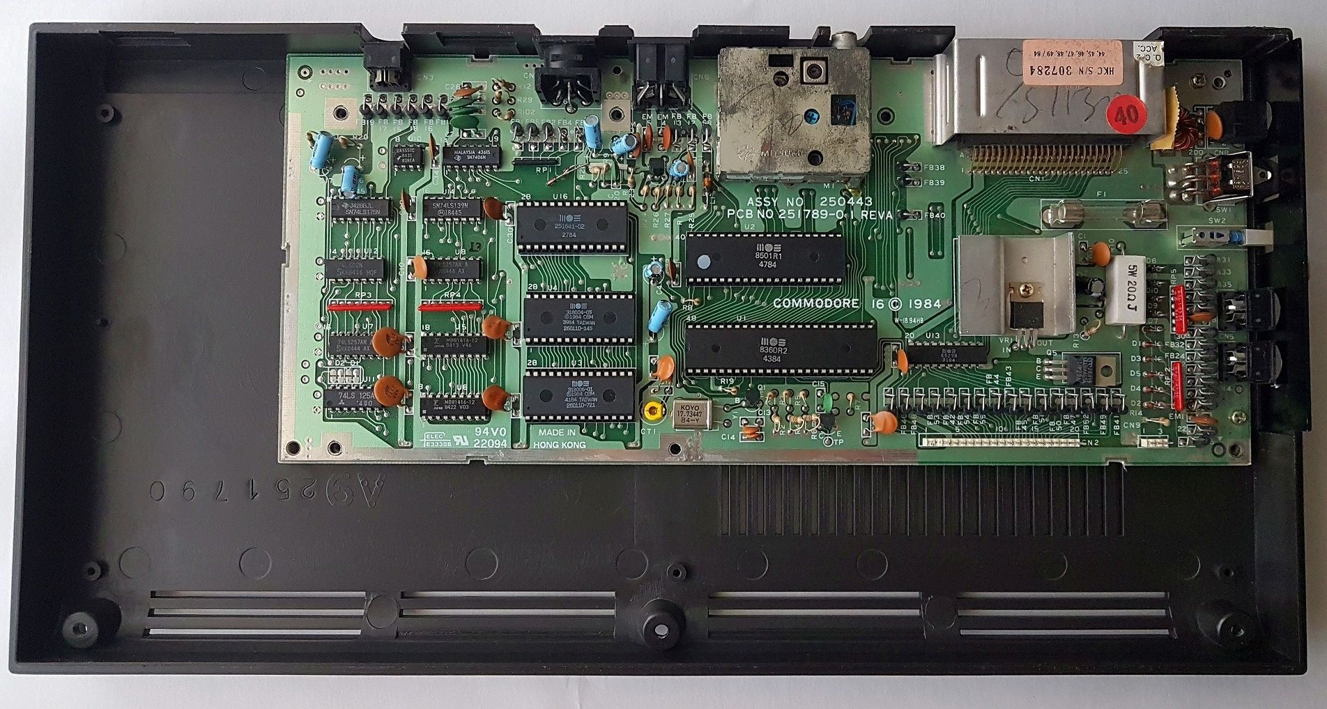 Commdore 16 main PCB. This is the standard small double-sided version which was used in all regular series models